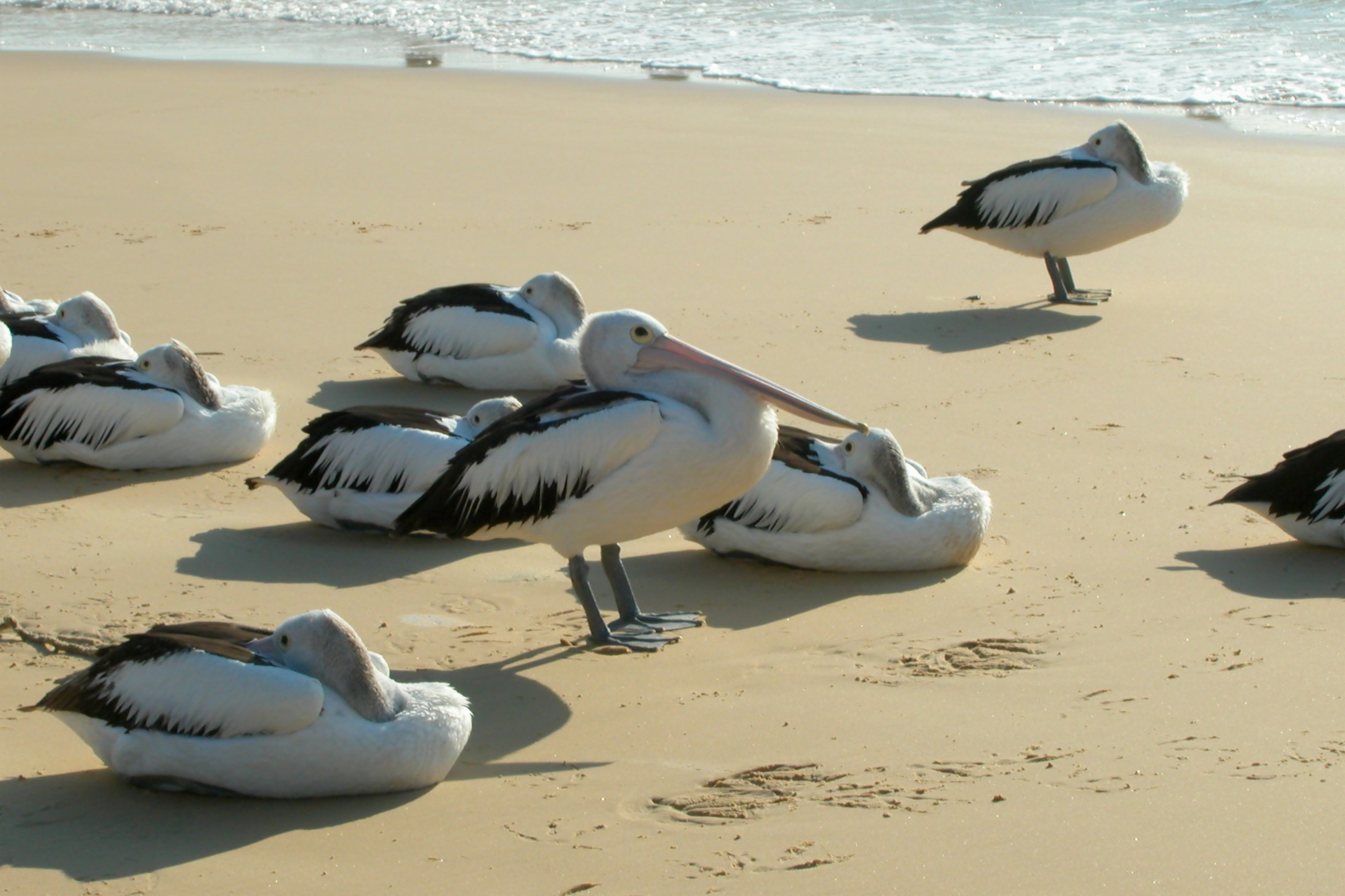 Australian Pelican, Pelecanus conspicillatus